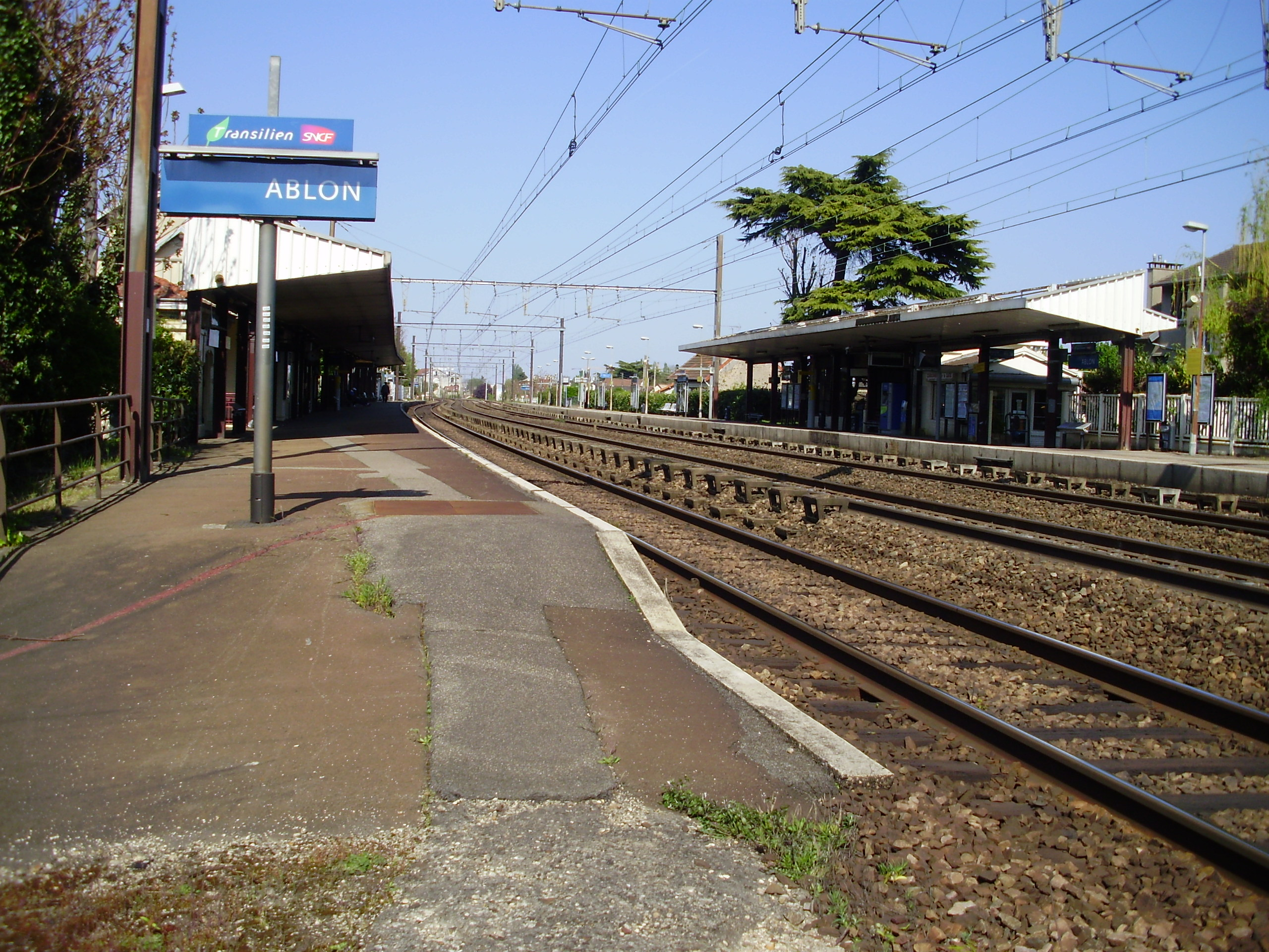 Platforms of the Ablon station (view towards Paris), in Ablon-sur-Seine, Val-de-Marne, France